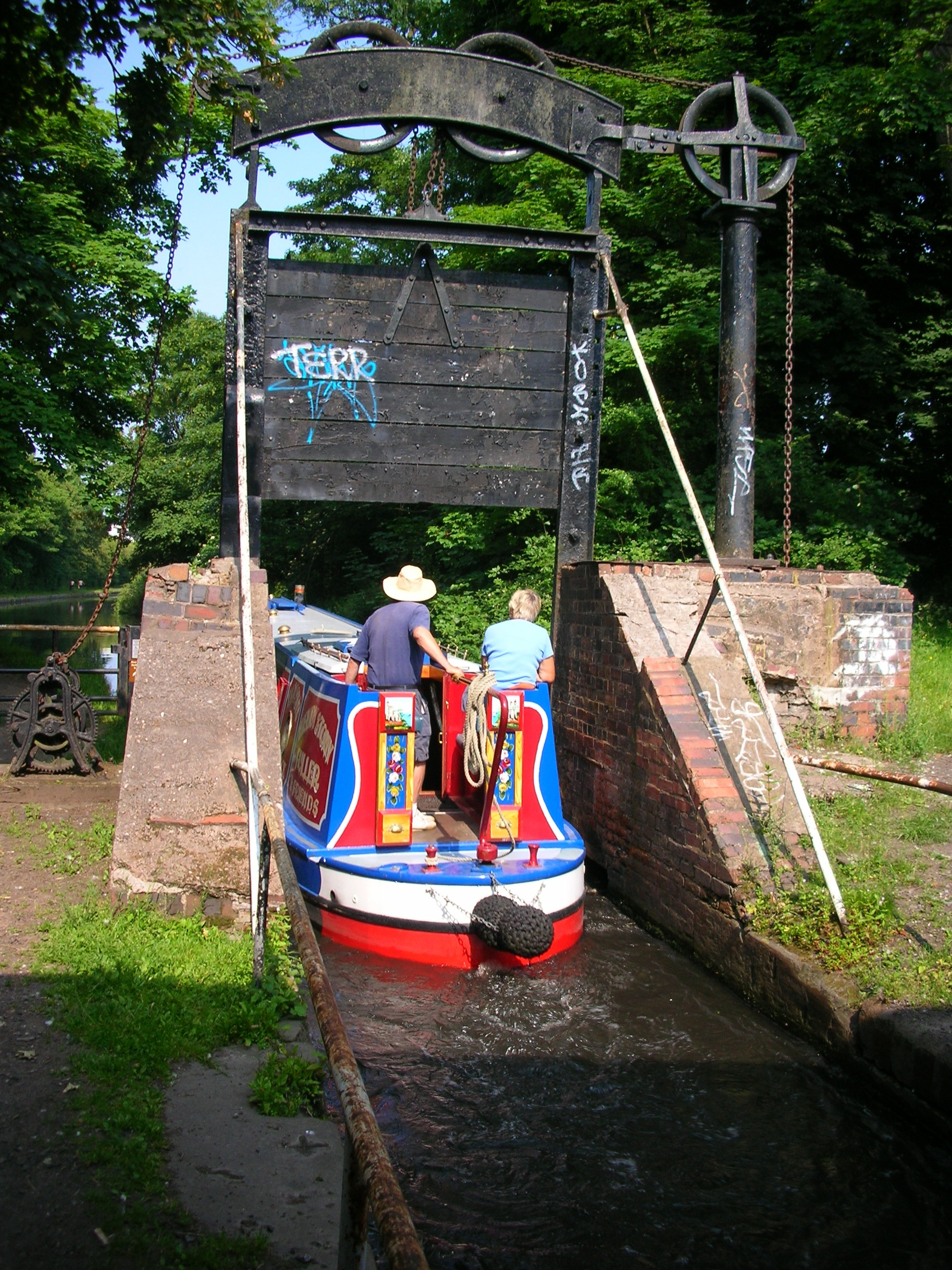 The east gate of the guillotine stop lock at Lifford Lane, Kings Norton, Birmingham, England. This lock was constructed to prevent water loss between the Stratford-upon-Avon Canal and the Worcester and Birmingham Canal which meet 200 metres to the west of the lock. These gates, dating from 1814, and replacing a more conventional four gate, wide stop lock, are now permanently open as both canals are operated by British Waterways. The lock is Grade II* listed and also a Scheduled Ancient Monument. Photographed by me 10 June 2007. Oosoom See also Image:Lifford Lane Guillotine Stop Lock west.jpg